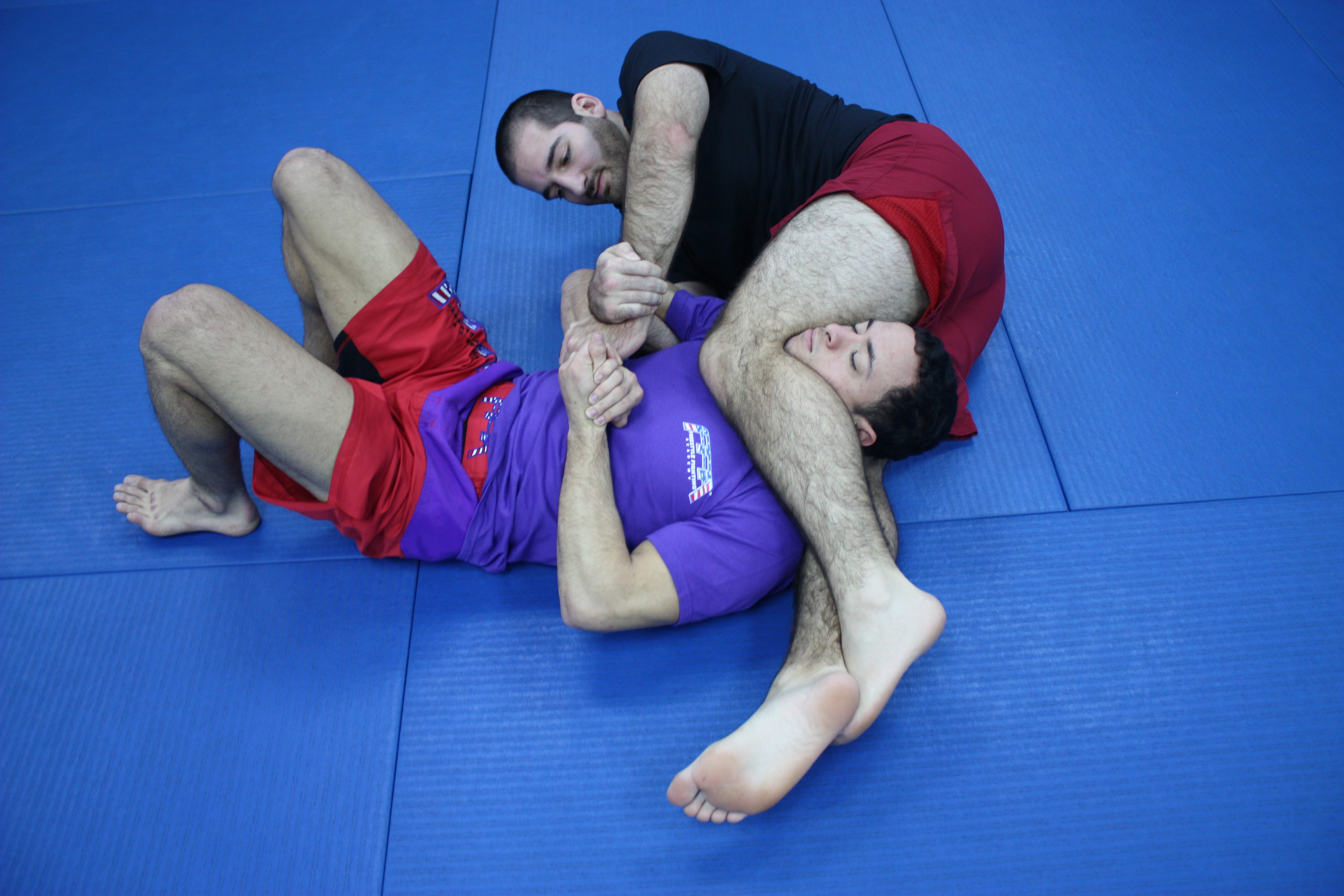 David Avellan of the Freestyle Fighting Academy (FFA) using the Kimura Trap System to catch the Head Scissors submission hold.